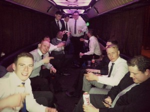 Stag party in PartyBus Krakow